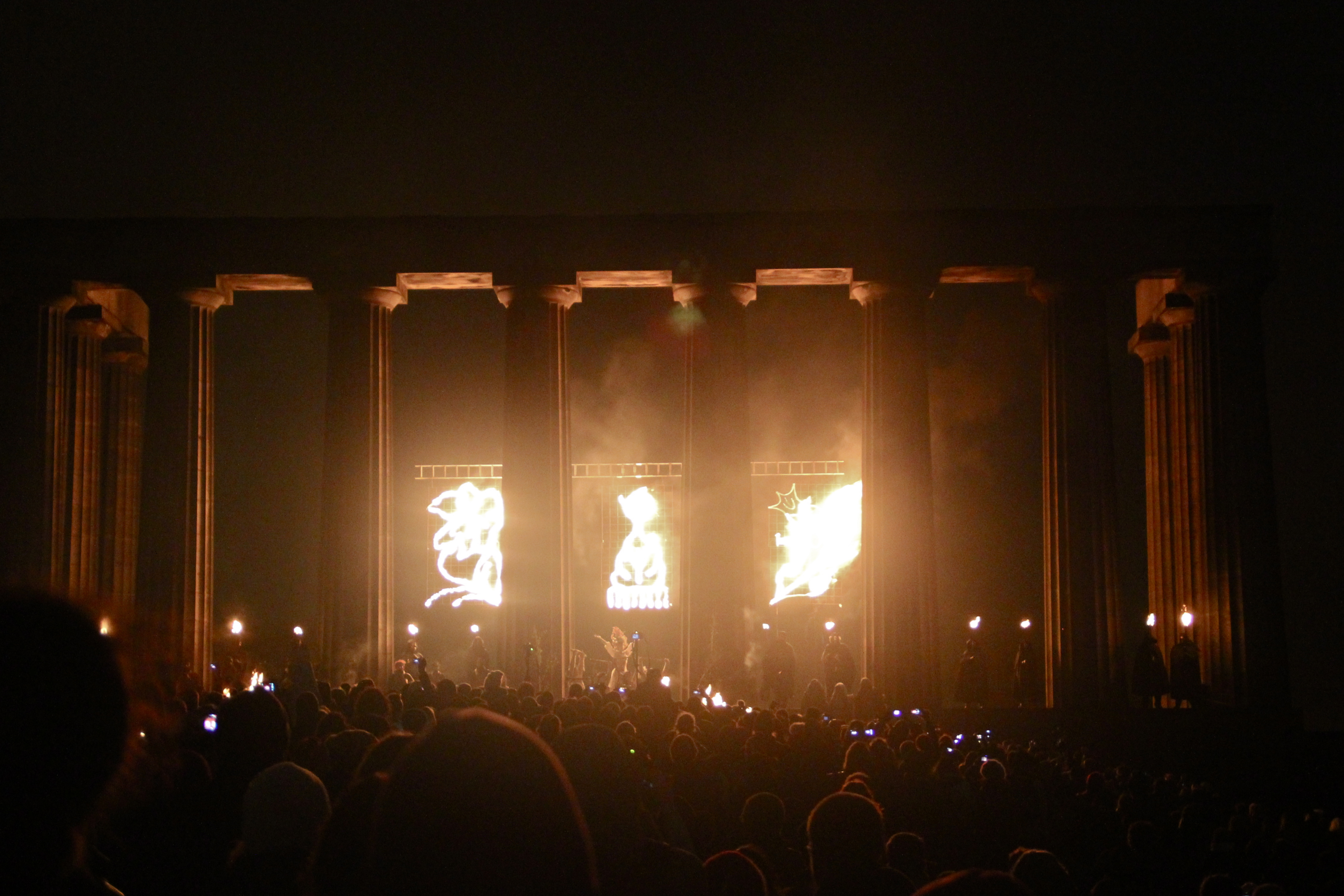 2012 Beltane Fire Festival in front of the National Monument of Scotland on Calton Hill, Edinburgh, Scotland